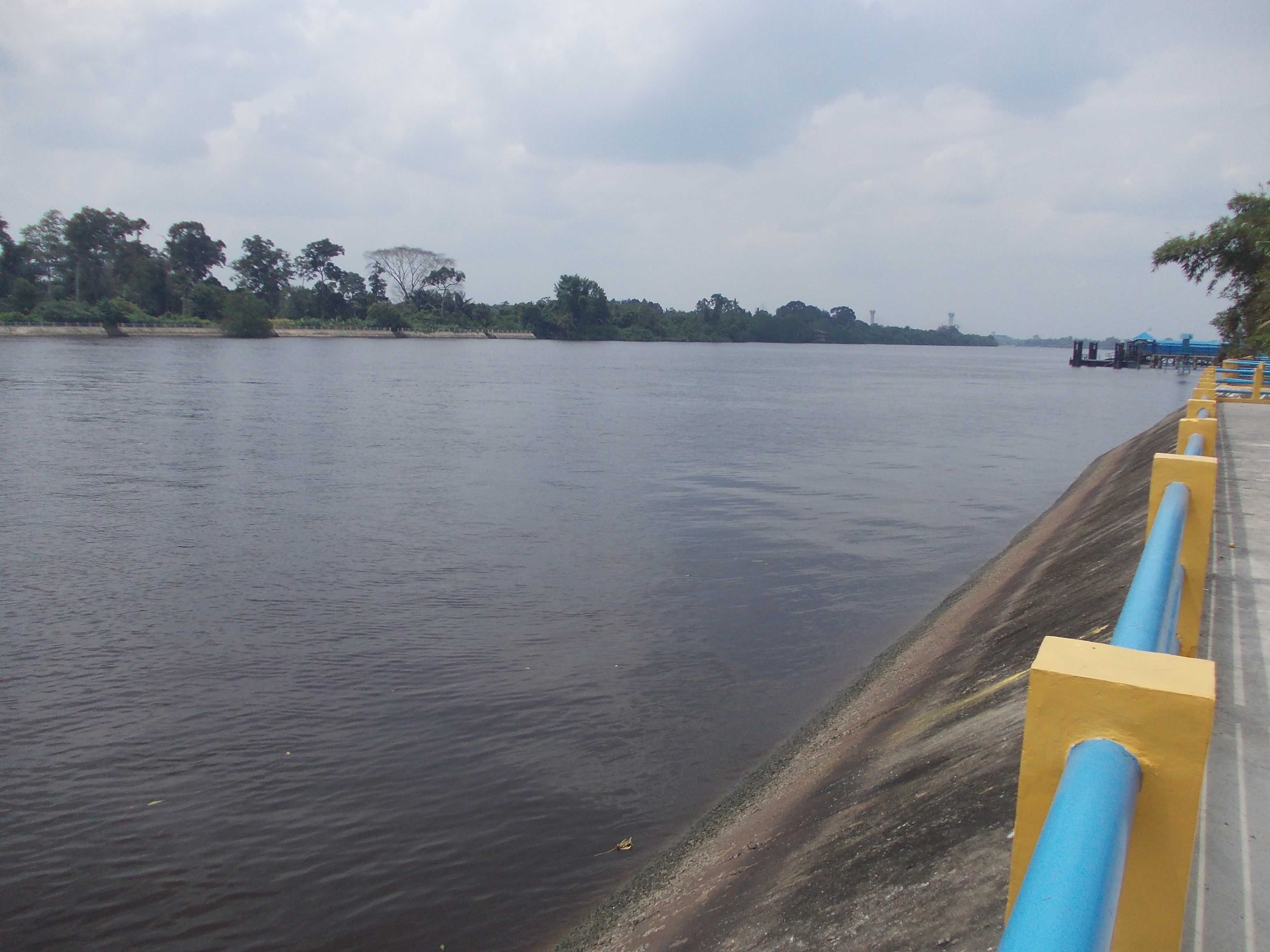 Siak River, viewed from the Masjid Shahabuddin.